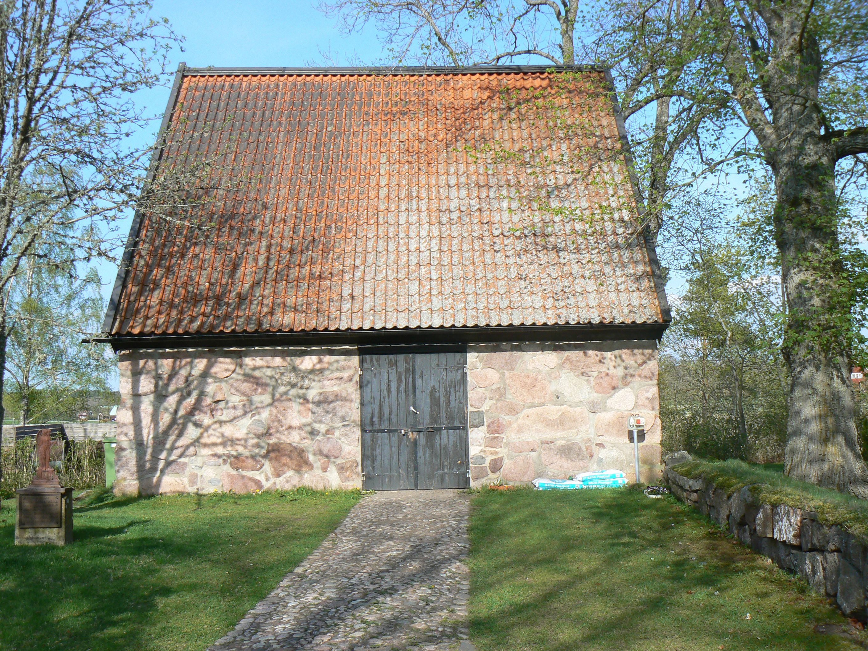 The "tiondebod" at Gammalkil church in Sweden